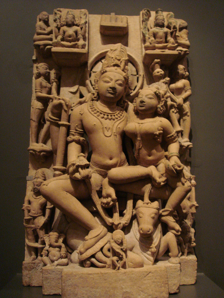 India, Haryana or Uttar Pradesh, South Asia Shiva’s Family, circa mid-10th century Sculpture; Stone, Sandstone, 33 3/4 x 19 7/8 x 10 3/4 in. (85.73 x 50.48 x 27.31 cm) Gift of Mr. and Mrs. Harry Lenart (M.75.11) Wikipedia Loves Art at the Los Angeles County Museum of Art This photo of item # M.75.11 at the Los Angeles County Museum of Art was contributed under the team name "ARTiFACTS" as part of the Wikipedia Loves Art project in February 2009. Los Angeles County Museum of Art The original photograph on Flickr was taken by sisleyceli—please add a comment to the original Flickr page whenever a use has been made on Wikipedia or another project. Project galleries on Flickr: this institution, this team